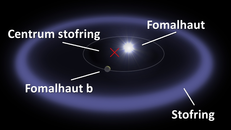 Scematic representation of Fomalhaut, the planet and debris disc based on HST illustration STScI-2005-10d.